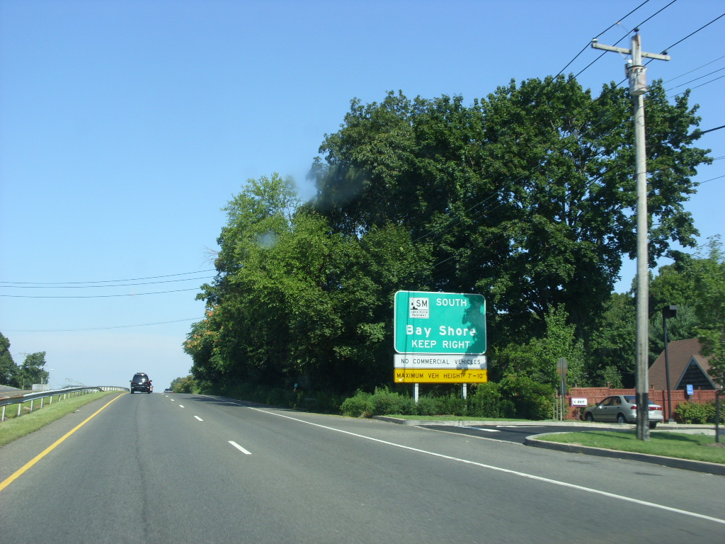 New York State Route 454 heading eastbound approaching the Sunken Meadow State Parkway southbound exit in Commack.